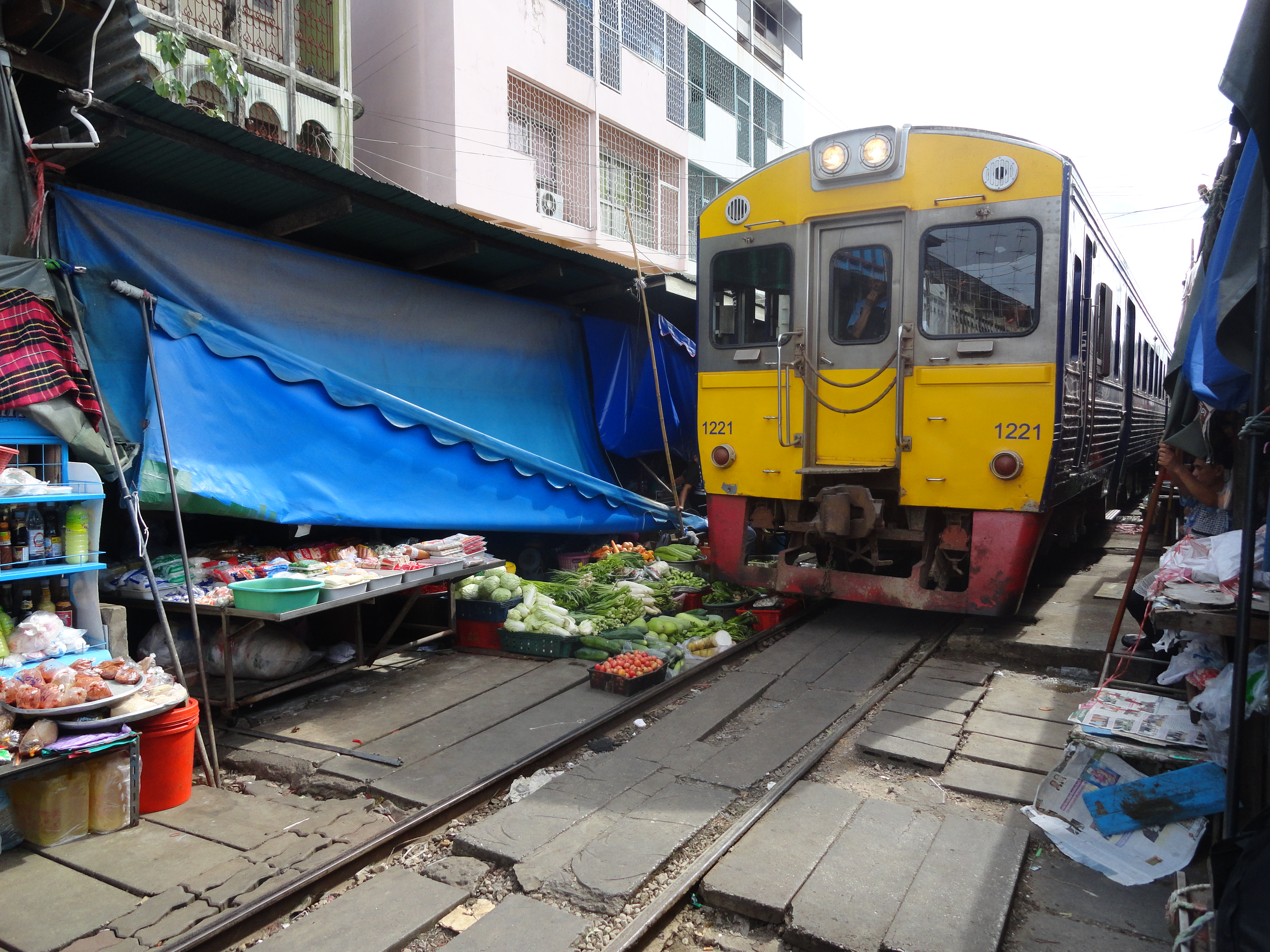 The train is coming! A shot taken at Maeklong Railway Market in Samut Songkhram, about 80 Km South-west of Bangkok.